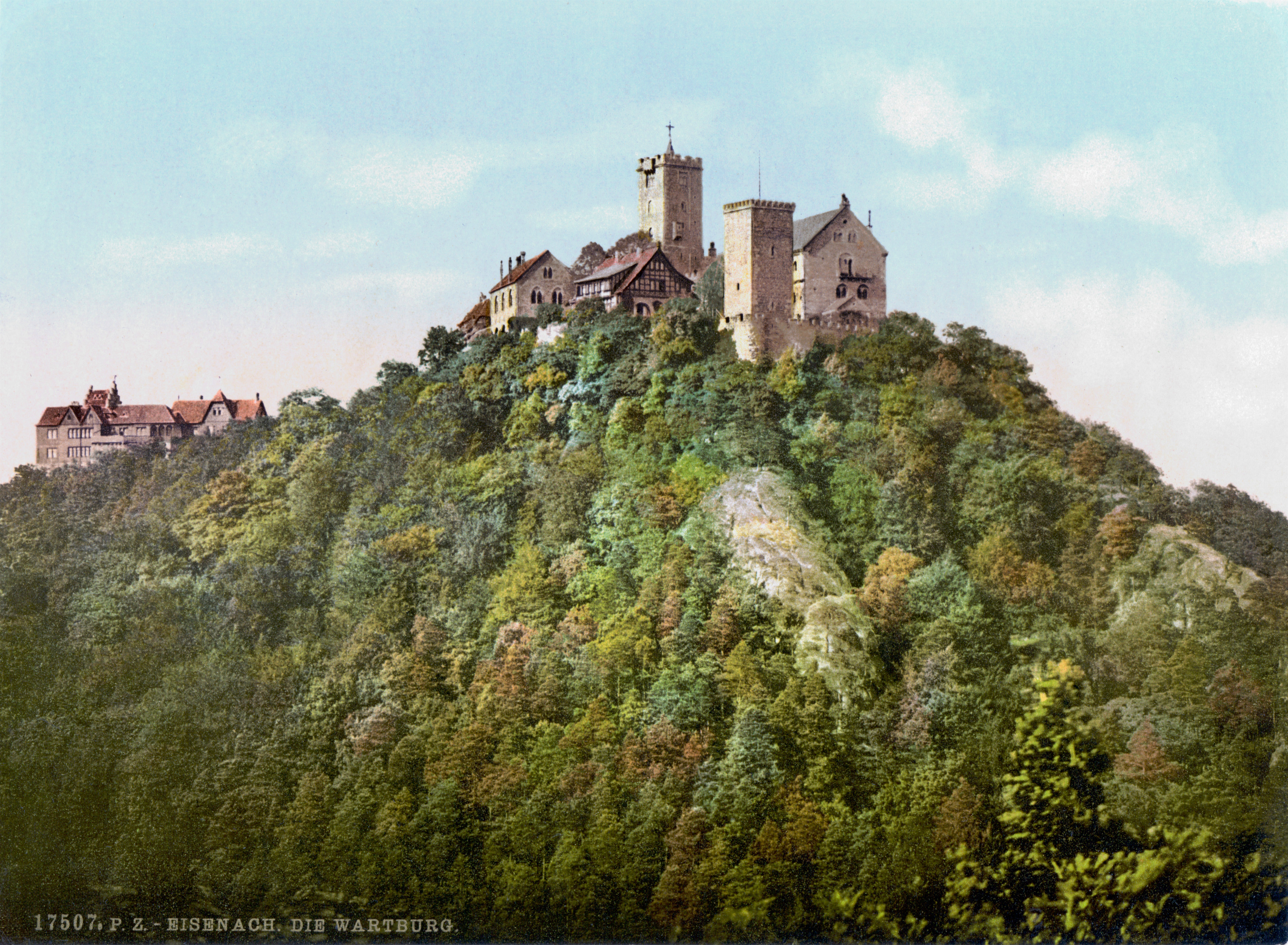 Wartburg, between 1890 and 1900, south-western aspect